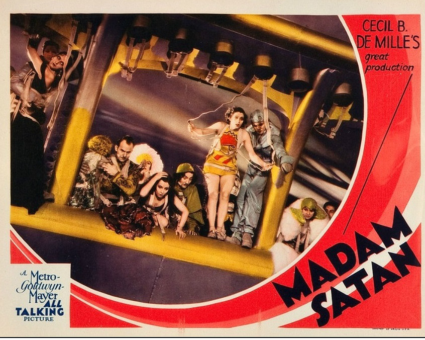 Lobby card for the American musical comedy film Madam Satan (1930).